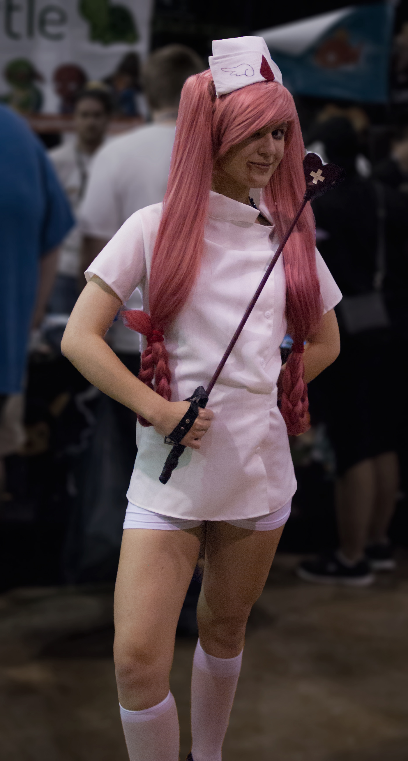 Cosplay of Ebola-chan at Anime Midwest 2015